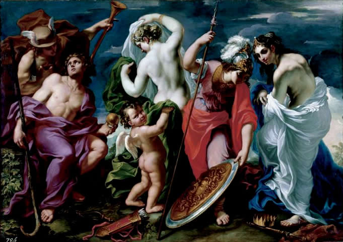 Height: 172.7 cm (67.9 ″); Width: 245.1 cm (96.4 ″) dimensions QS:P2048,172.7U174728;P2049,245.1U174728